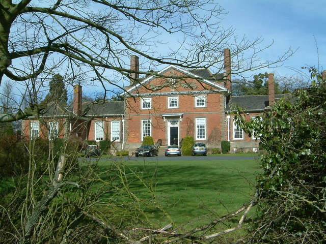 Wrottesley Hall near Tettenhall. The original hall was burnt down in 1897 the original being built in 1696. This building is now divided into flats.